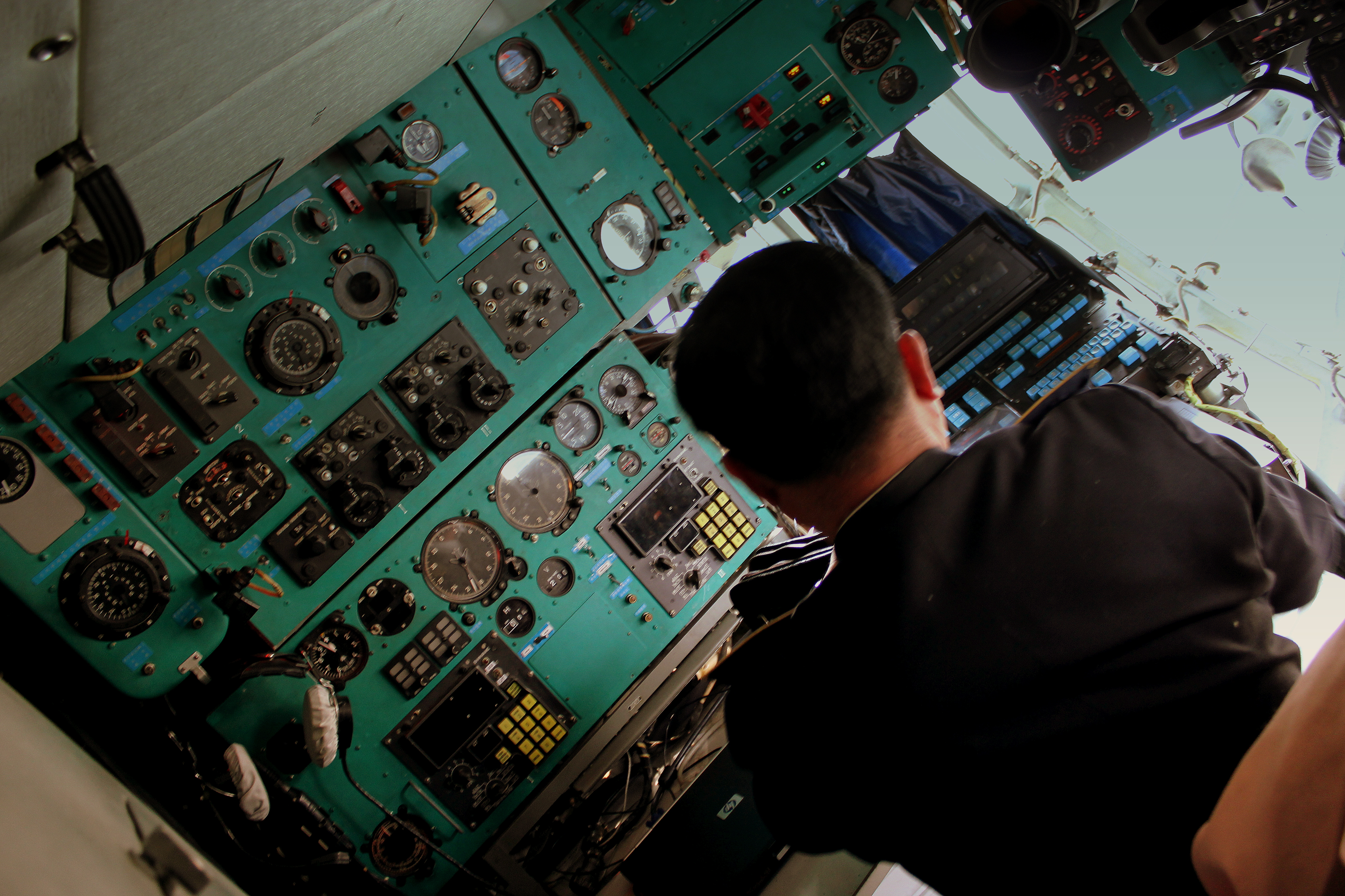 FLIGHT ENGINEER POSITION AIR KORYO IL76 P912 AT SONDOK AIRFIELD DPRK NORTH KOREA OCT 2012